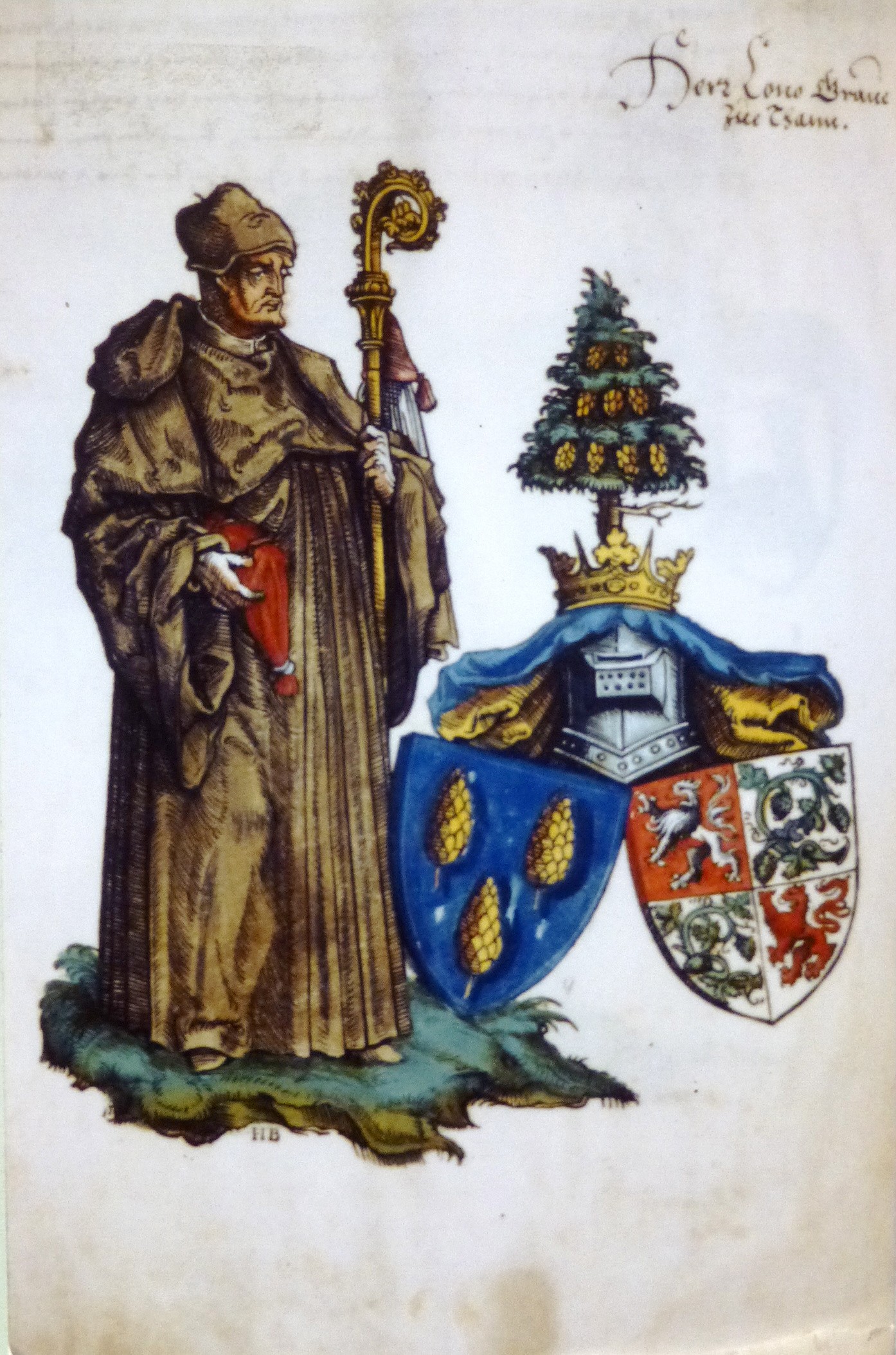 Abbot Kuno of Waldburg, abbot of Weingarten